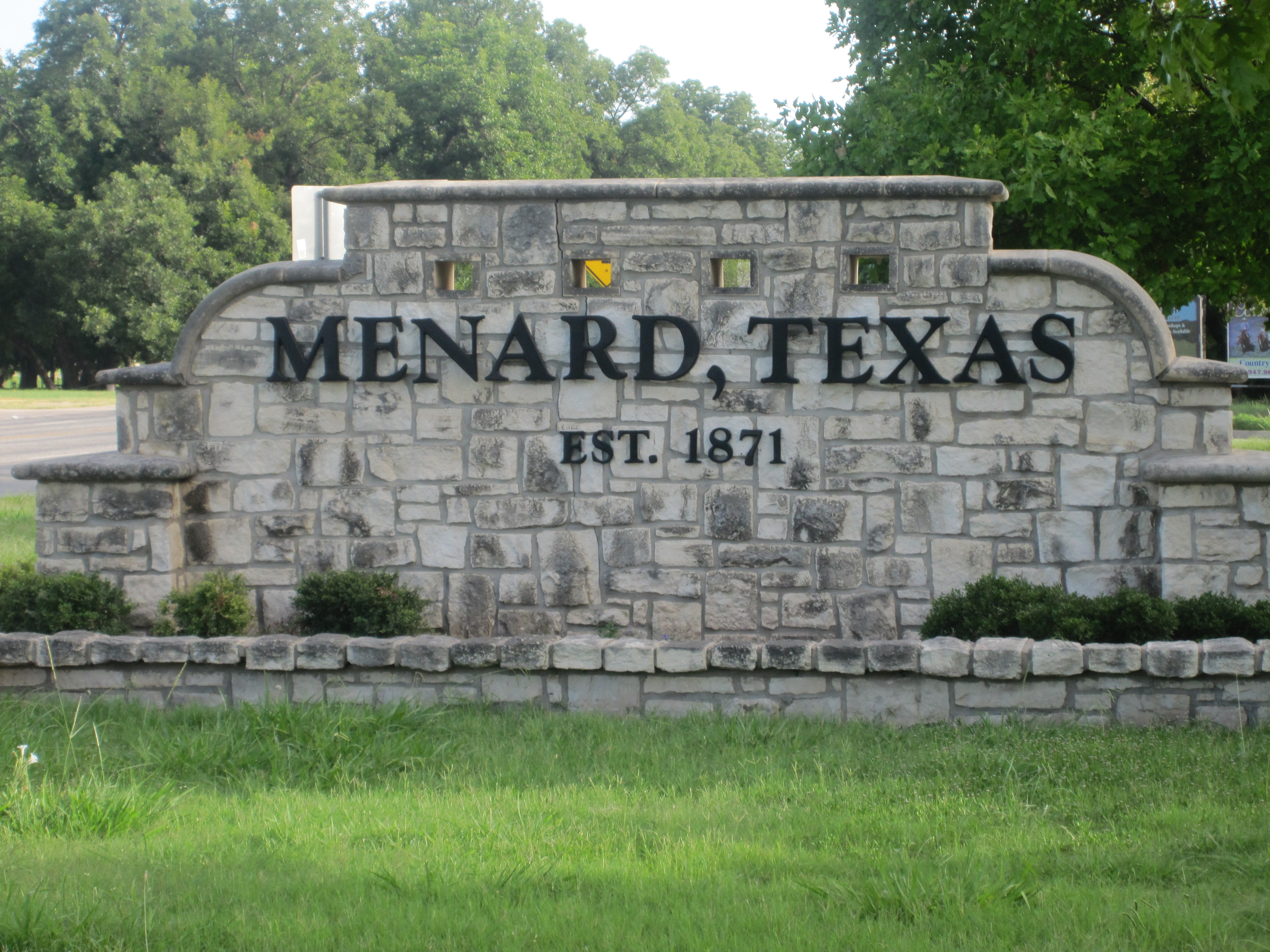 I took photo with Canon camera in Menard, TX.